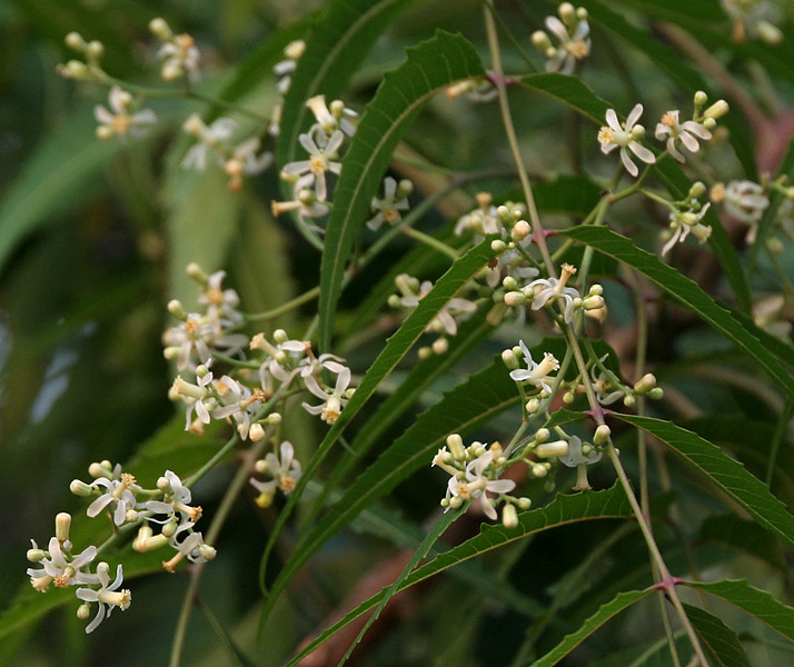 Neem, Margosa, Neeb, Nimtree, Nimba, Vepu, Vempu, Vepa, Bevu, Veppam, Aarya Veppu or Indian-lilac Azadirachta indica in Hyderabad, India.